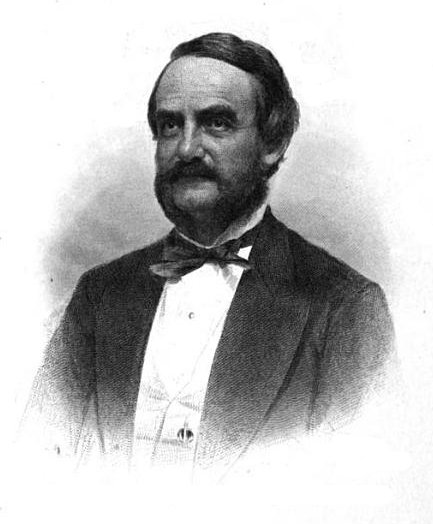 Image taken from the chapter on Thomas Allen on page 260 From Google Books Archive: Title Saint Louis: the future great city of the world Author L. U. Reavis Publisher Gray, Baker & Co., 1875 Original from the New York Public Library Digitized Feb 9, 2008 Length 833 pages